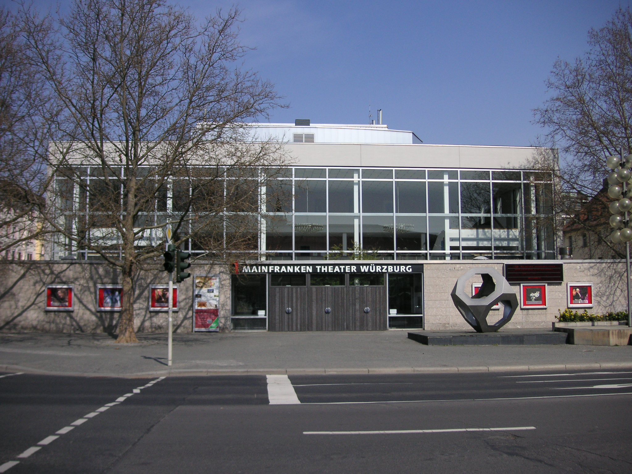 Theatre of Würzburg.